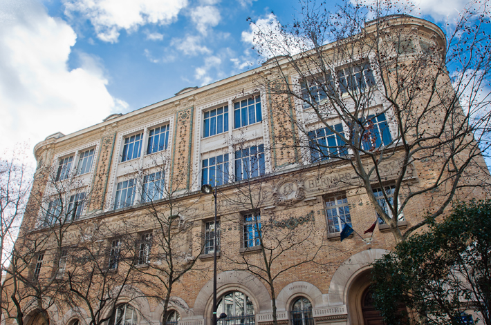 ecole Duperre